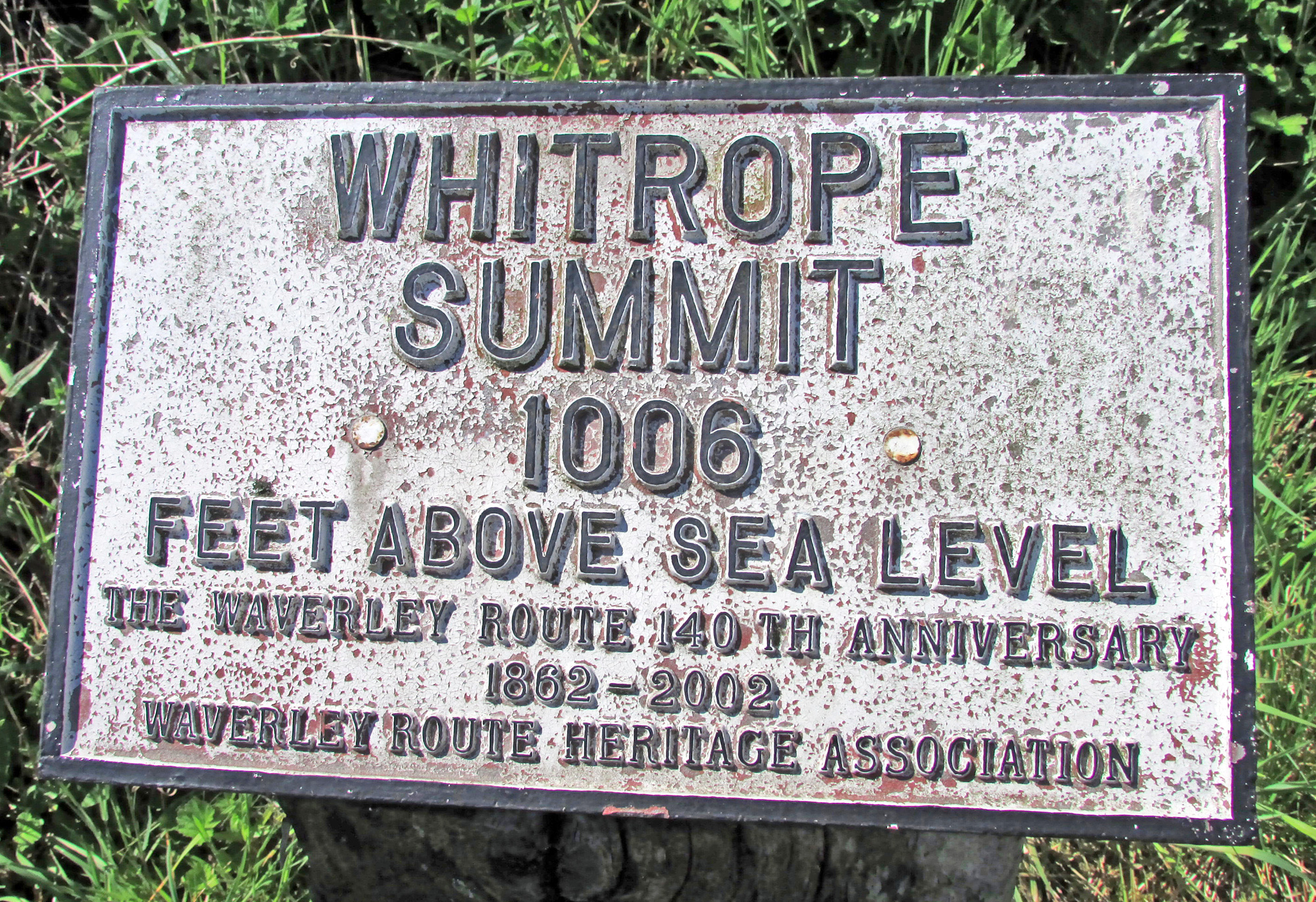 Memorial sign at Whitmore Siding marking the summit at 1006 feet and the 140th anniversary of the line's opening